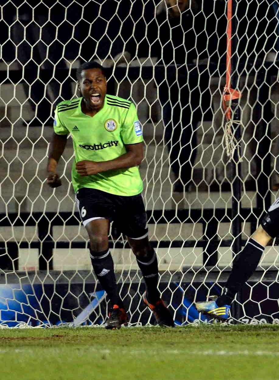 Dale Bennett playing for Forest Green Rovers during the 2012/12 season.